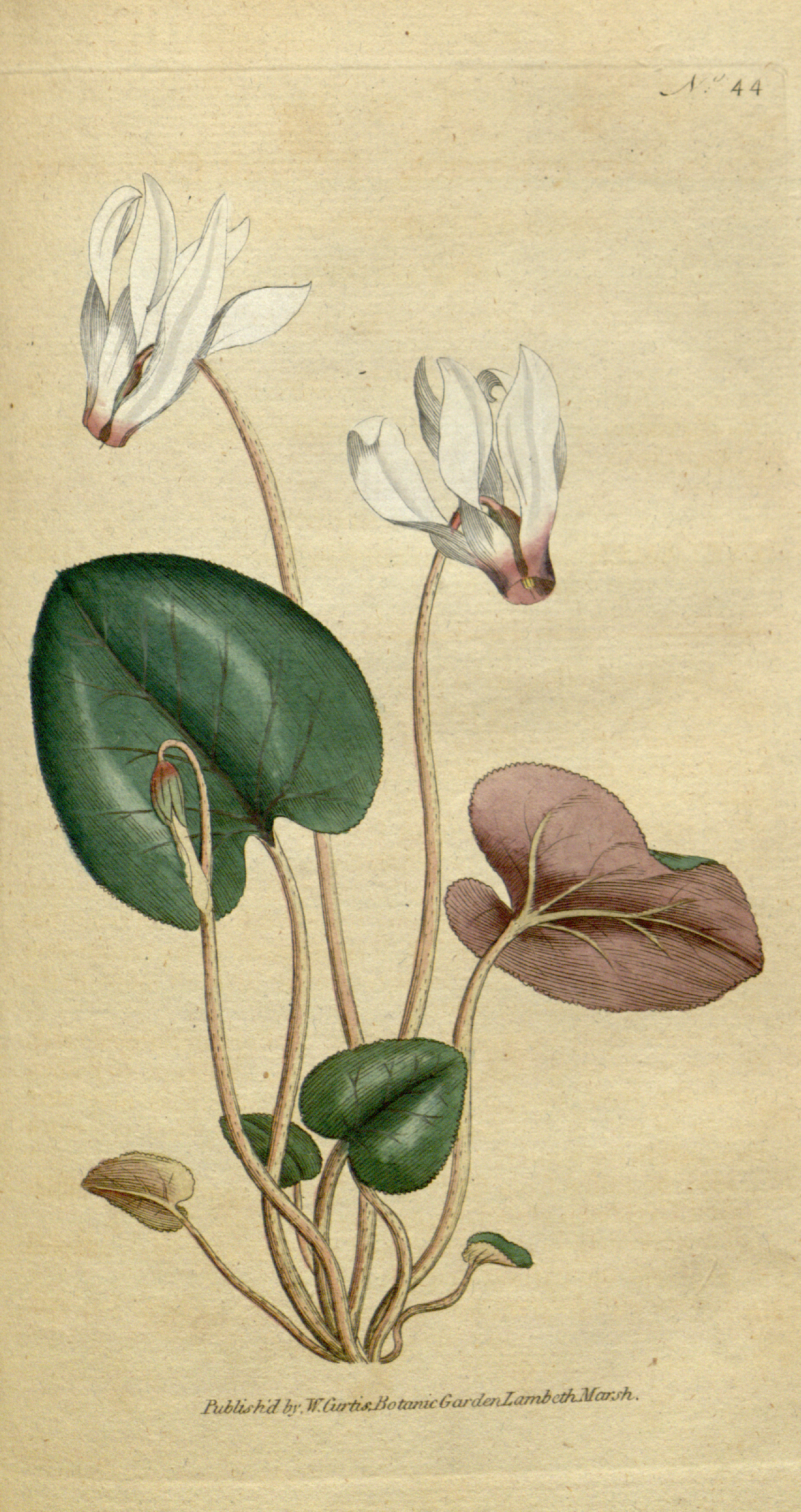 This is a plate from The Botanical Magazine, Volume 2.